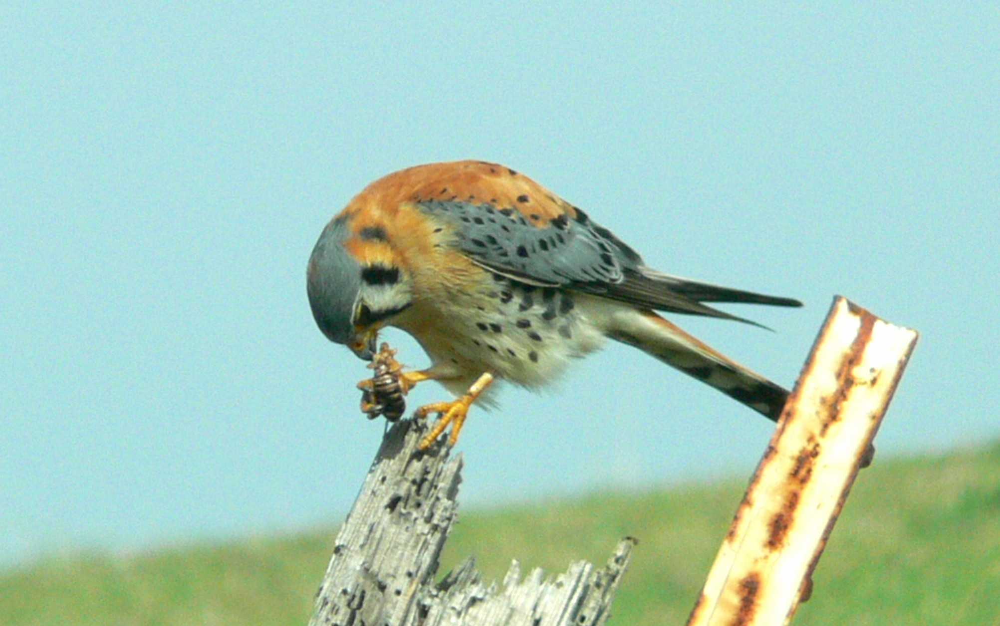 Falco sparverius American Kestrel Male eating a bug.